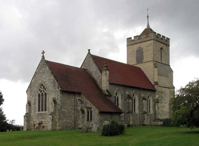 St Andrew's parish church, Buckland, Hertfordshire, seen from the northeast